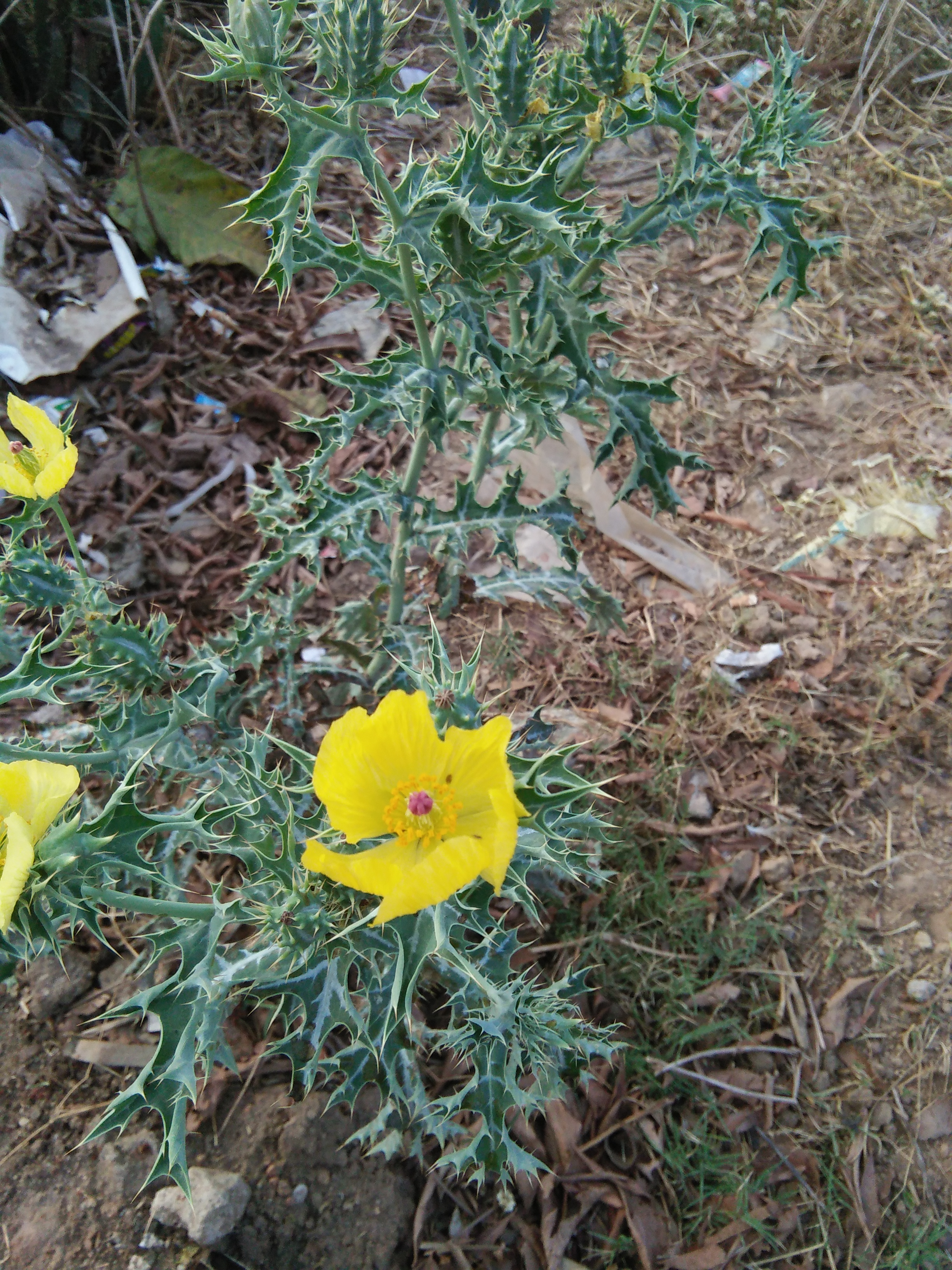 This plant belongs to the poppy family and is very spiny. It is usually seen on roadsides in India